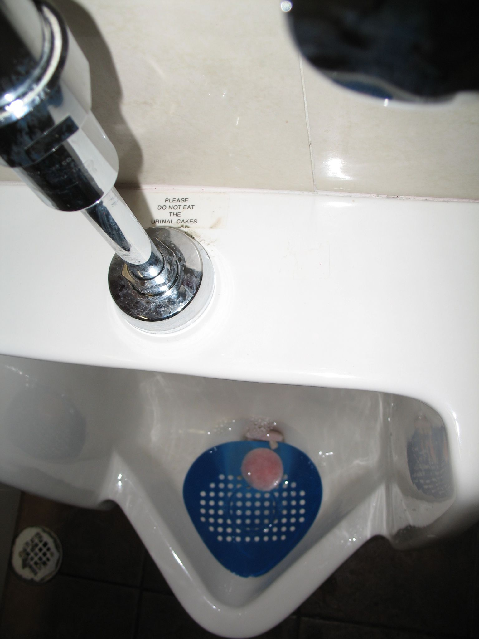 Example of a urinal cake in a Malaysian restaurant toilet, in Minneapolis, Minnesota, USA. Sticker above urinal says "please do not eat the urinal cakes"